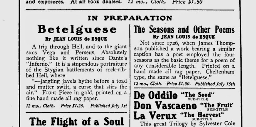 pg. 416 of The Bookseller, volume 28, highlighting the ad for Betelguese.